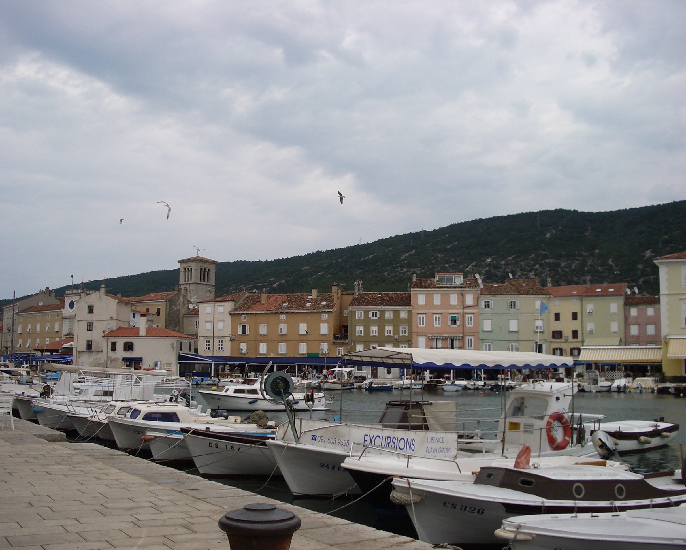 Port of Cres, island and city of Istria, region in Croatia.